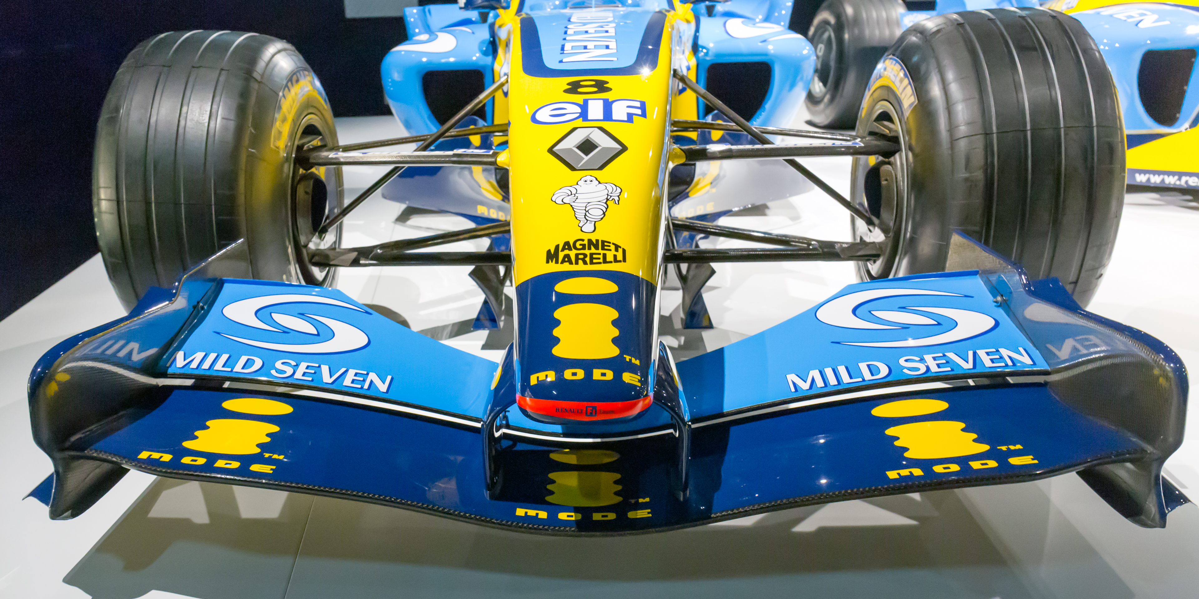 Museo y Circuito Fernando Alonso: 2004 Renault R24 of Fernando Alonso